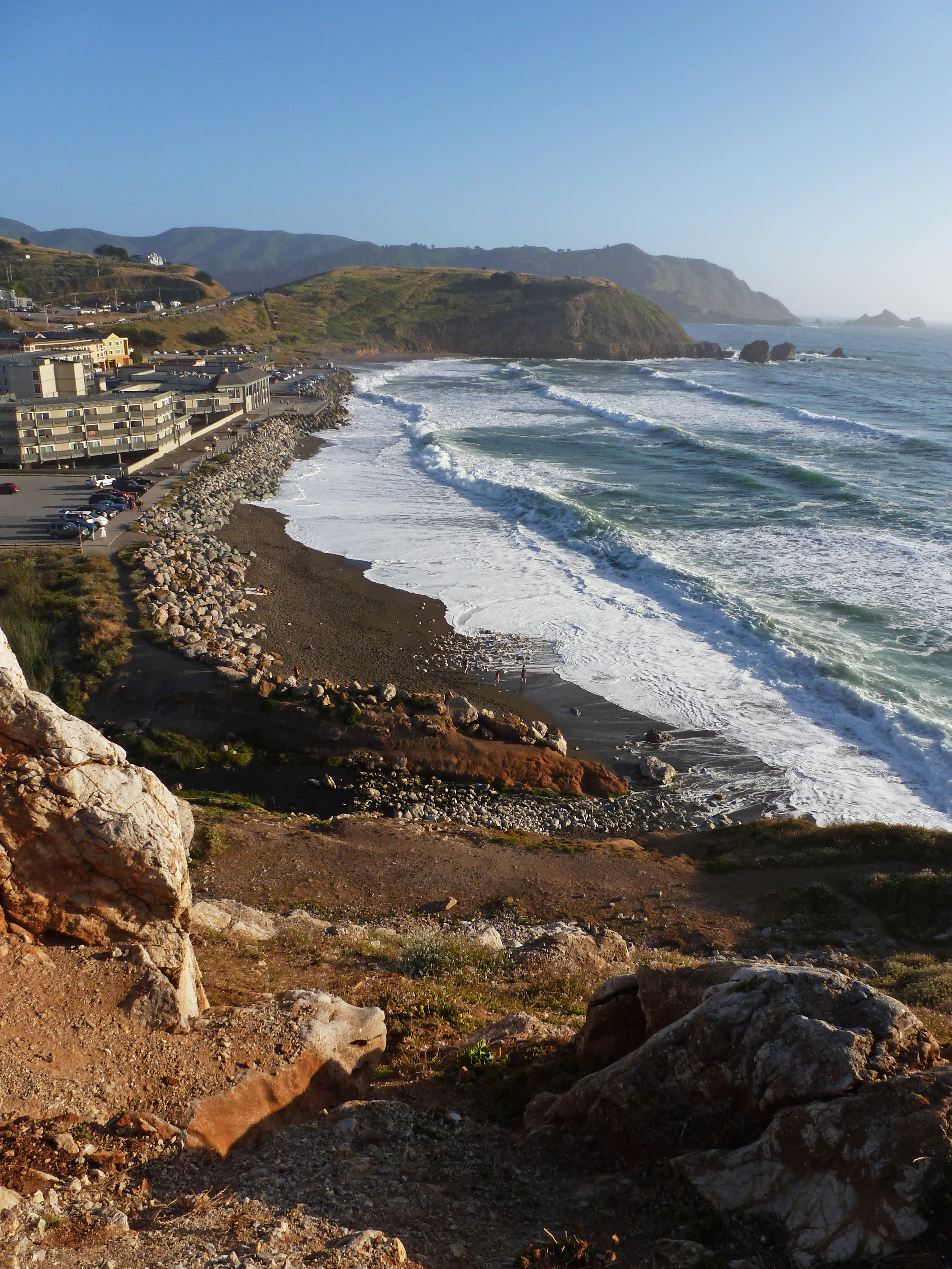 I took this photograph looking south from the hills surrounding the quarry site. The mouth of Calera Creek is visible.